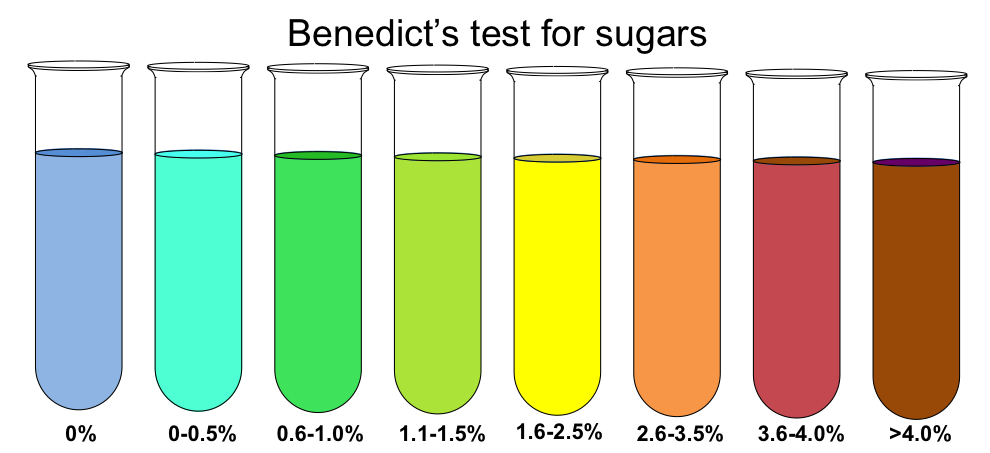 Benedict’s test for sugars is a simple assay that detects the concentration of reducing monosaccharides in a solution. Some disaccharides are detectable by Benedict’s test, but sucrose (table sugar) is an unreactive disaccharide. Benedict’s solution is a reagent, a chemical that changes color in the presence of another chemical.